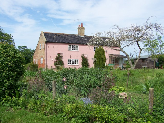 Church Cottage, Sotherton This is delightful Church Cottage, Sotherton, which sits on the far eastern edge of this grid square. The dead end road leads to this cottage, and after, public access is via a public footpath, from where this photo was taken.